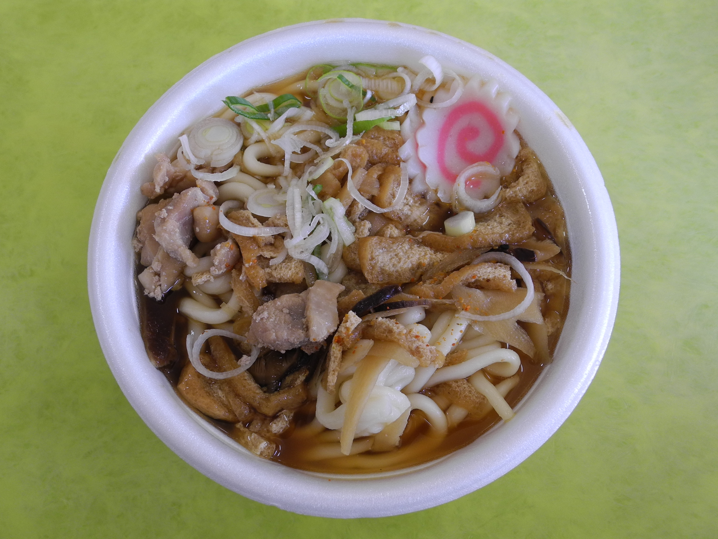 A styrofoam bowl full of pork udon resting on a green lunch tray.